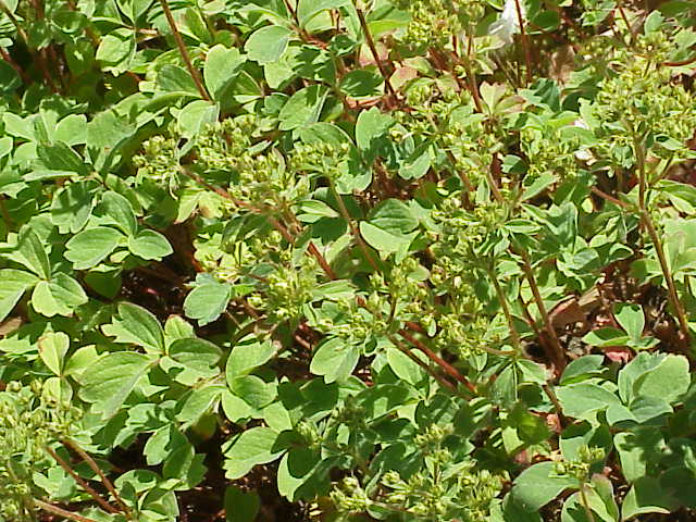 Species: Sibbaldia maxima Kesselr. ex Murav. Family: Rosaceae Image No. 1